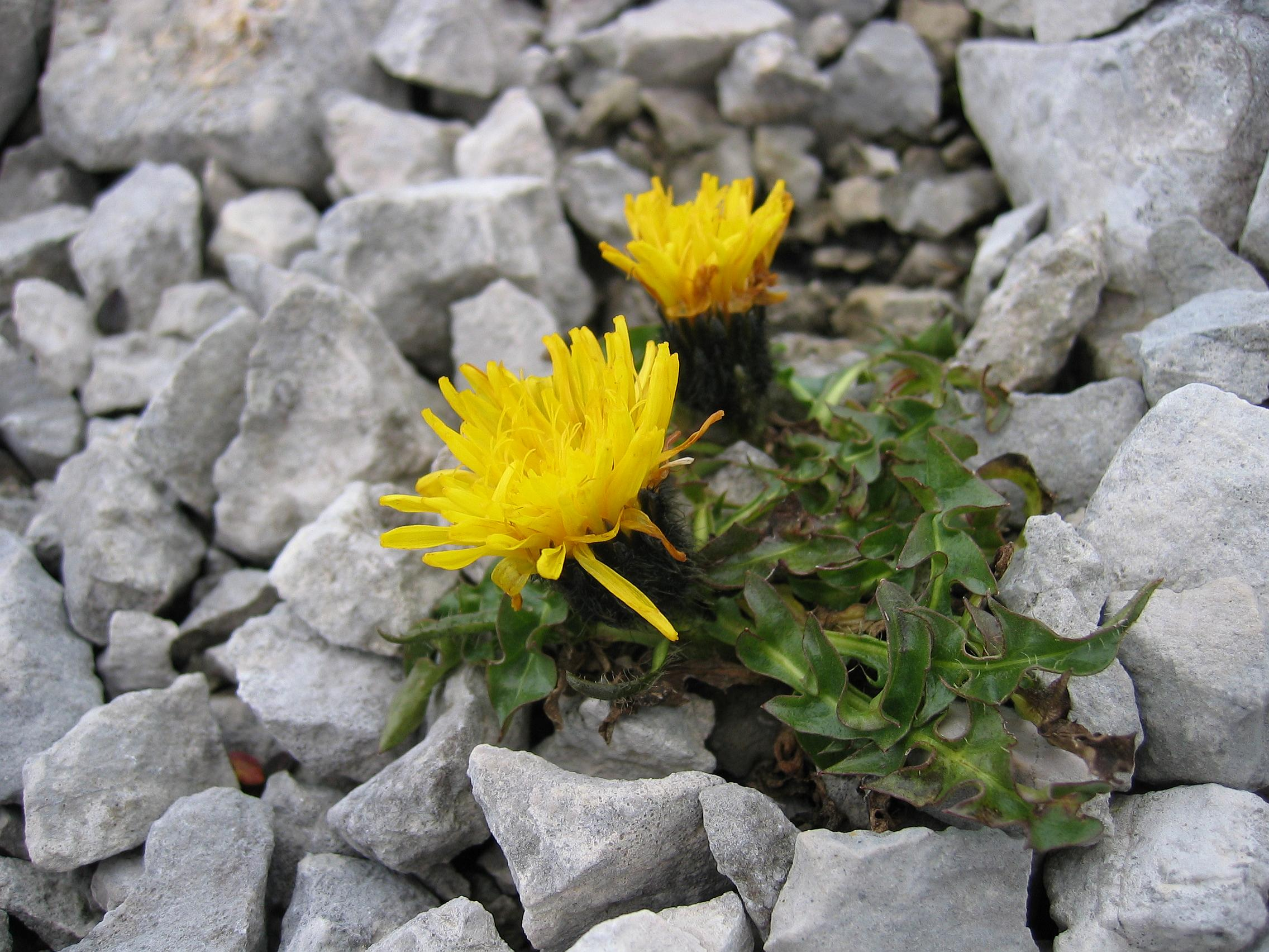 Crepis terglouensis, Warscheneck ~ 2200m, Austria